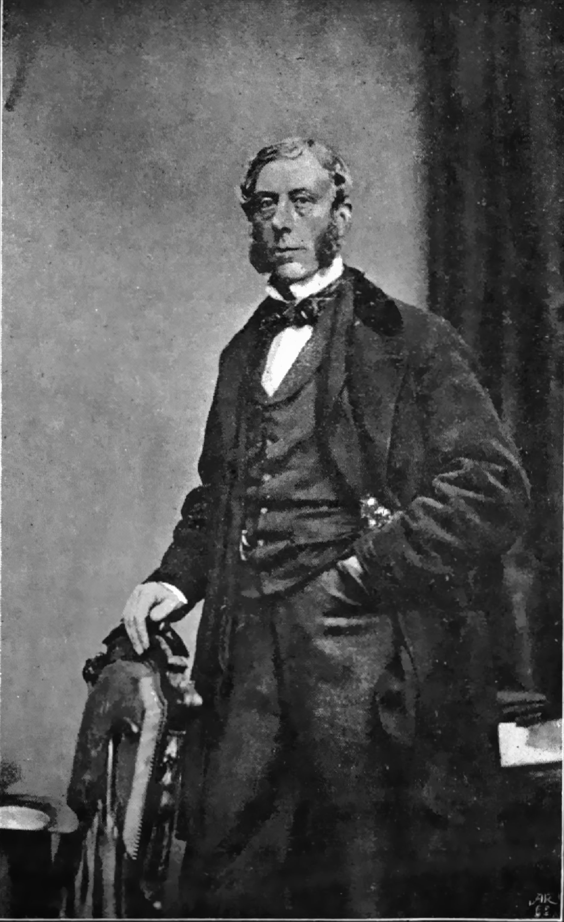 6th Earl of Bessborough 1890s